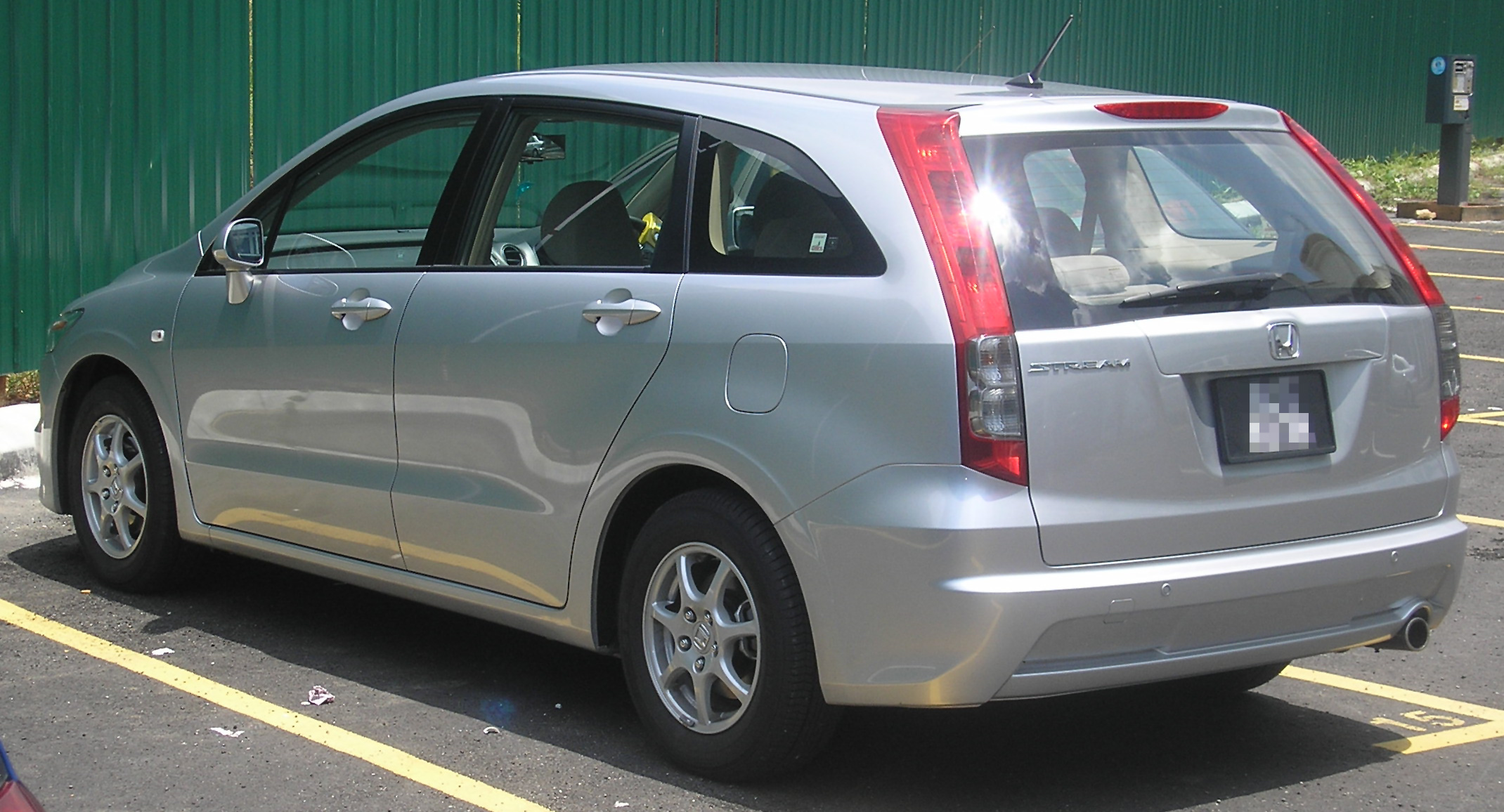 Rear quarter view of a second generation Honda Stream in Serdang, Selangor, Malaysia. Bears Malaysian license plates.